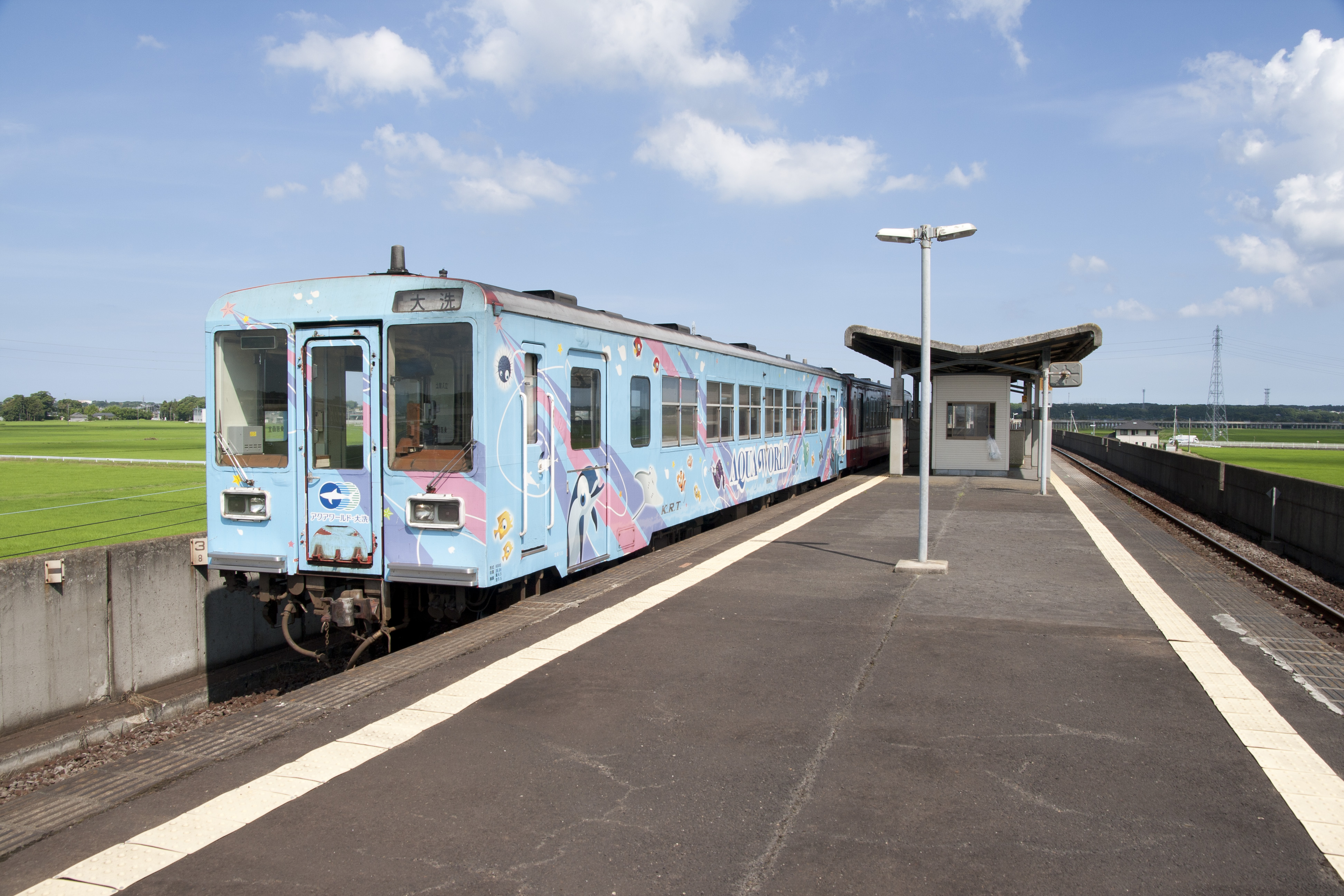 Tsunezumi Station in Mito City, Ibaraki Prefecture, Japan